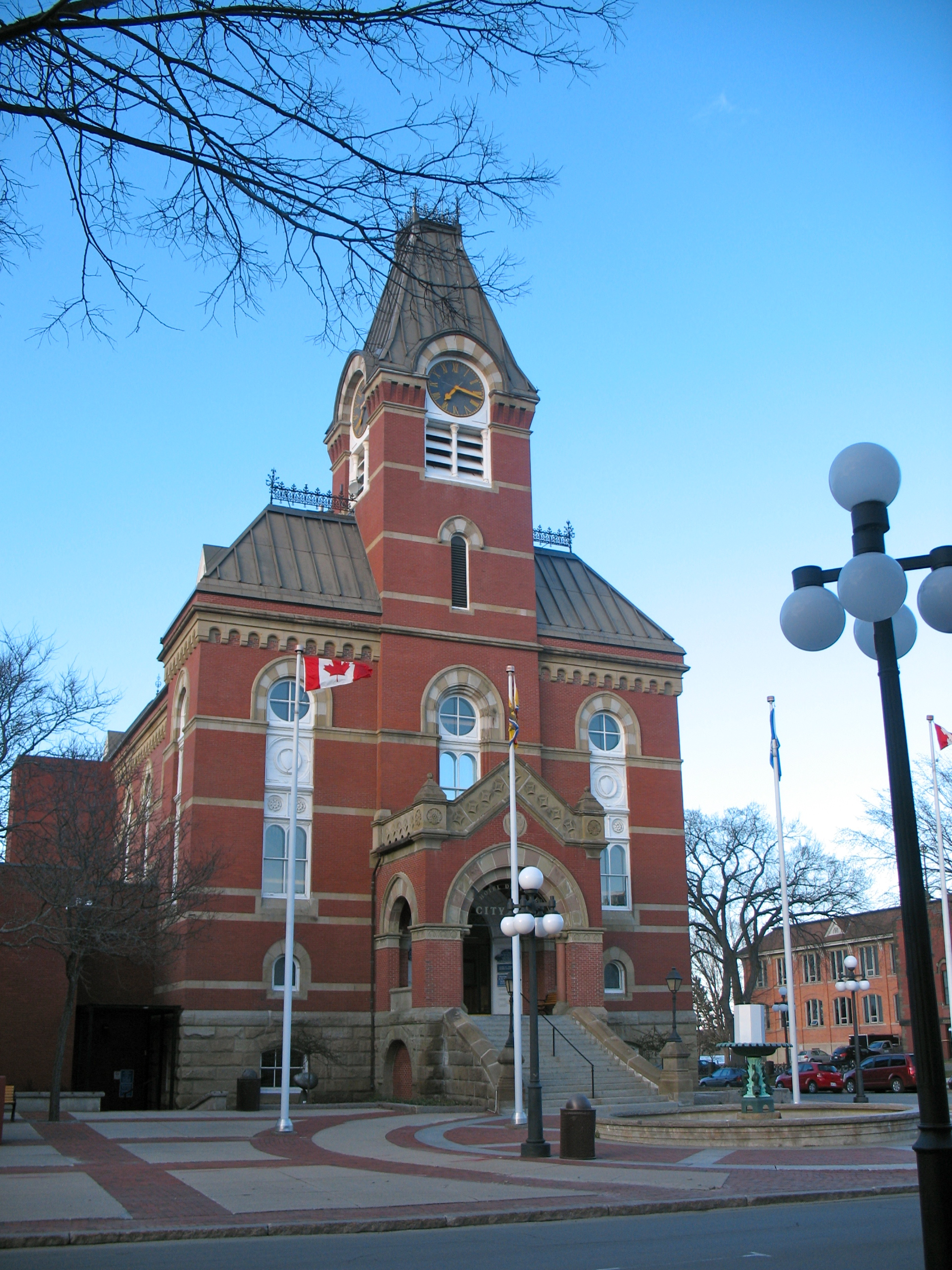 397 Queen Street, Fredericton, Canada